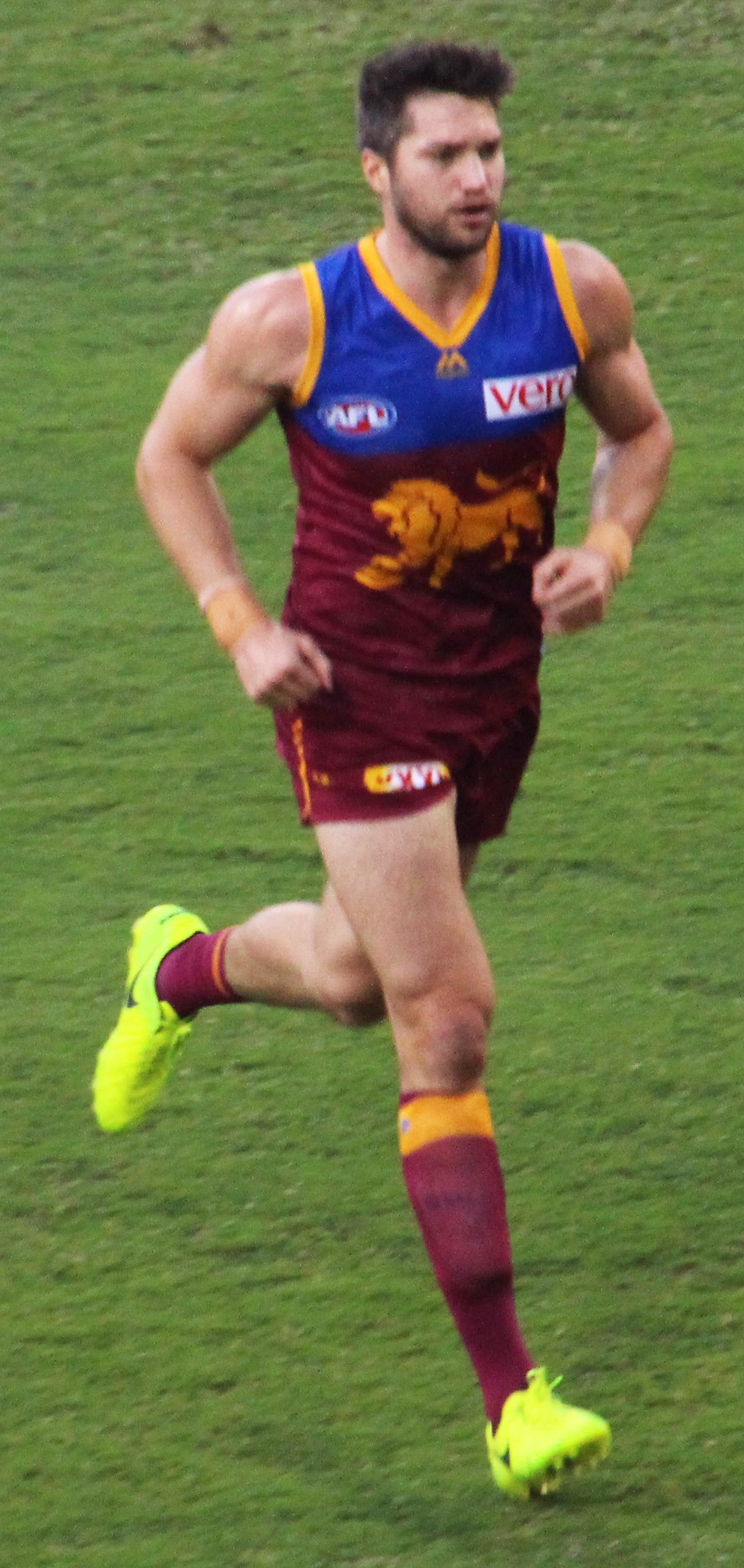 Stefan Martin at the Round 6, 2017 game for the Brisbane Lions against Port Adelaide.